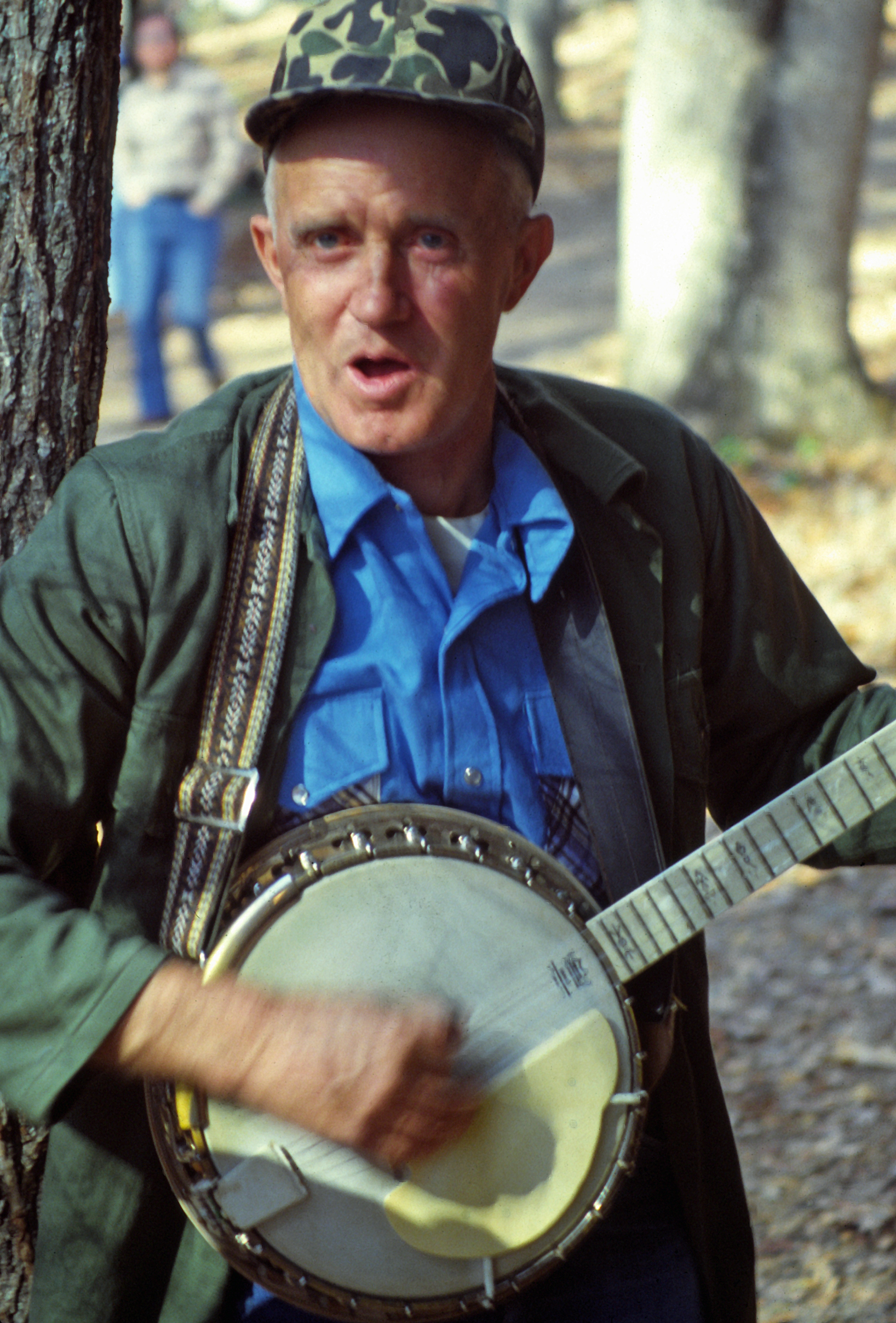 Hiawassee bluegrass musician Lawrence Eller sings and plays the banjo at North Georgia Mountain Fair, Fall 1979.